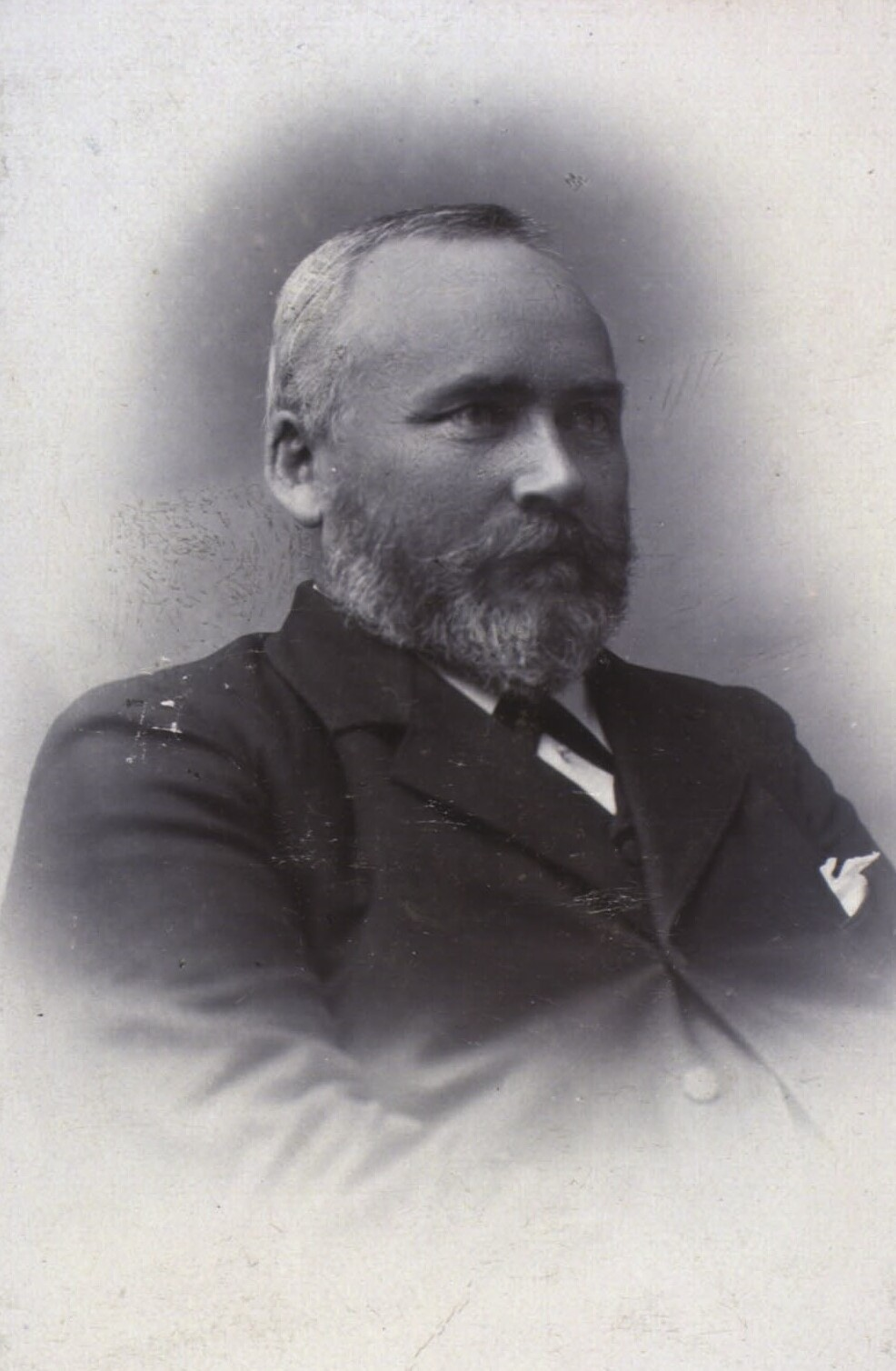 Clement Olsen (1842–1912), District officer in the Faeroe Islands, Danish politician, MP